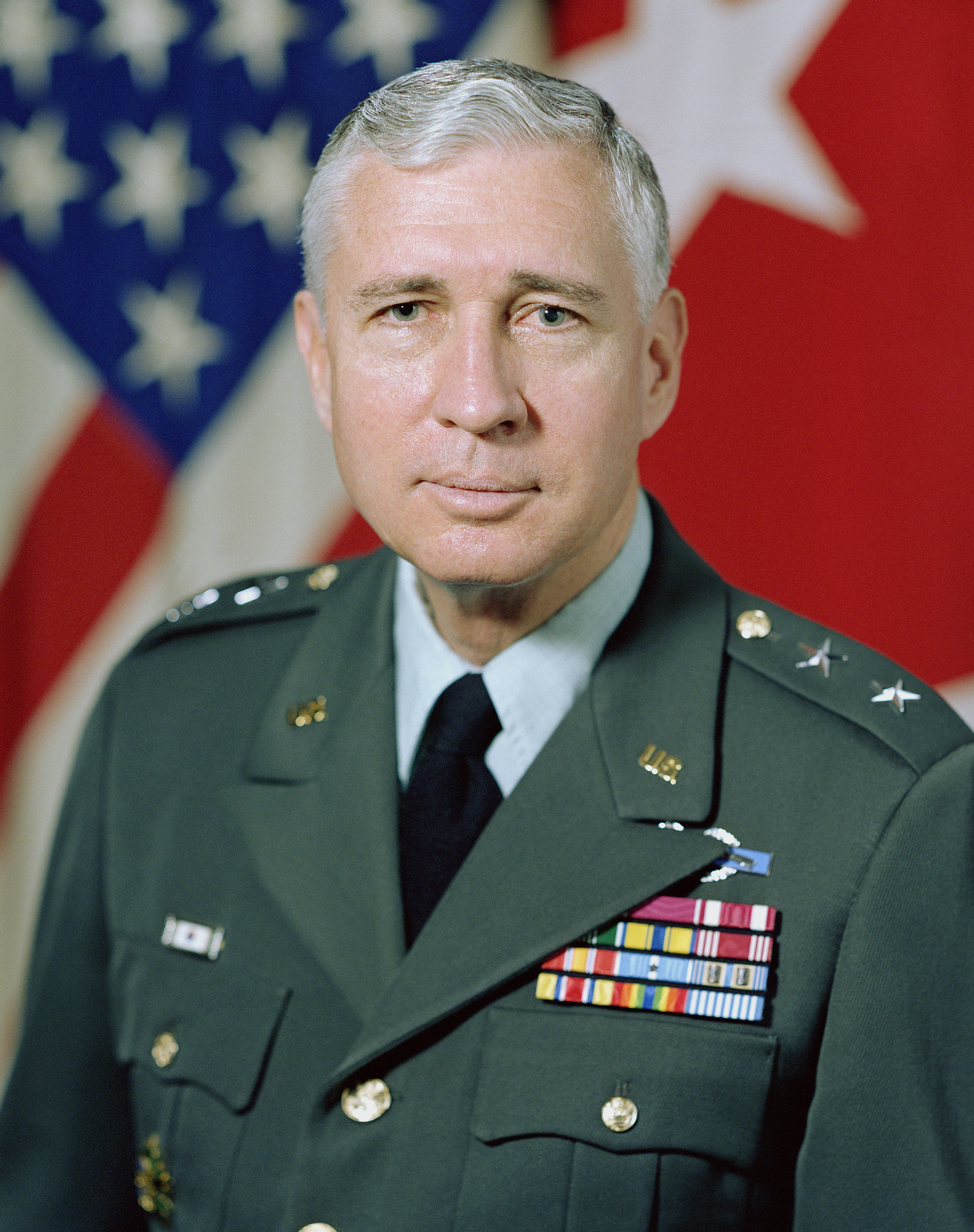 Maj. Gen. Herbert R. Temple, Jr.